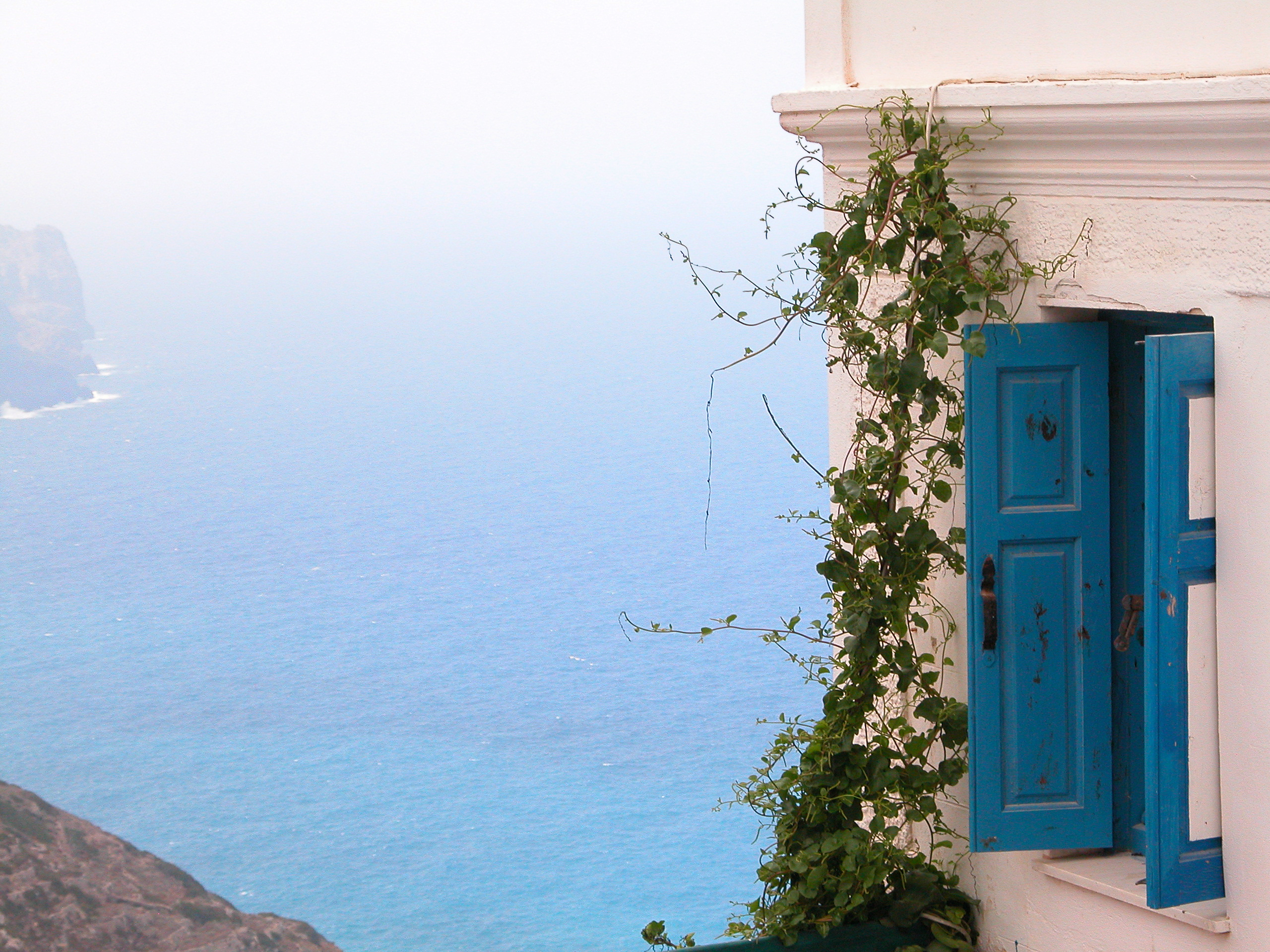 This is a photography of Natura 2000 protected area with ID GR4210003